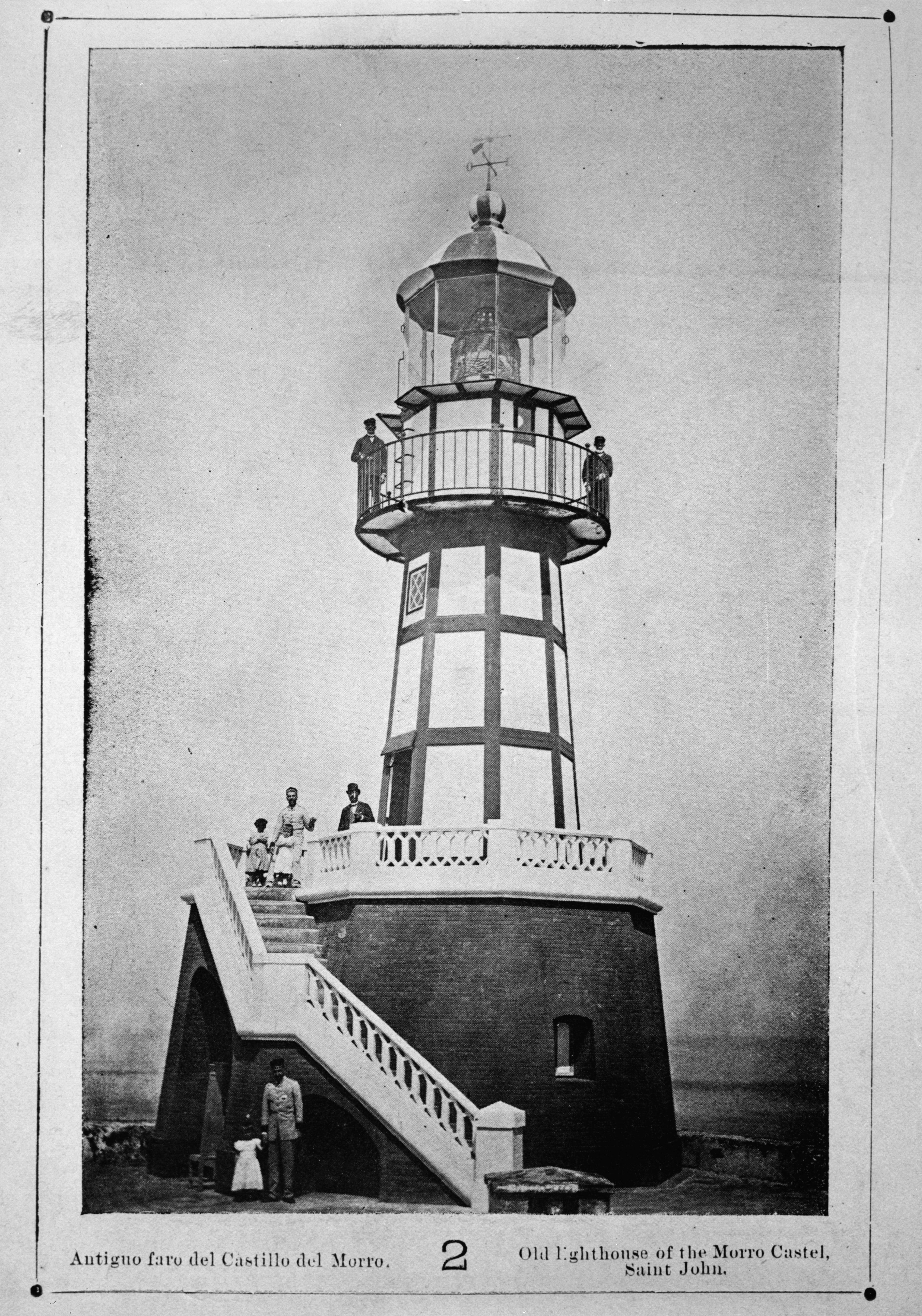 Original lighthouse of Fort San Felipe del Morro (San Juan, Puerto Rico)